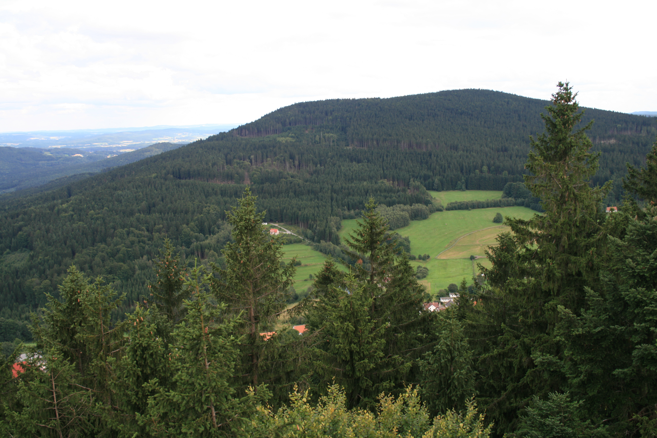 View from mountain Kraví hora over Hojná Voda (part of Horní Stropnice, south Bohemia, Czech Republic) to Vysoká (1033 m)